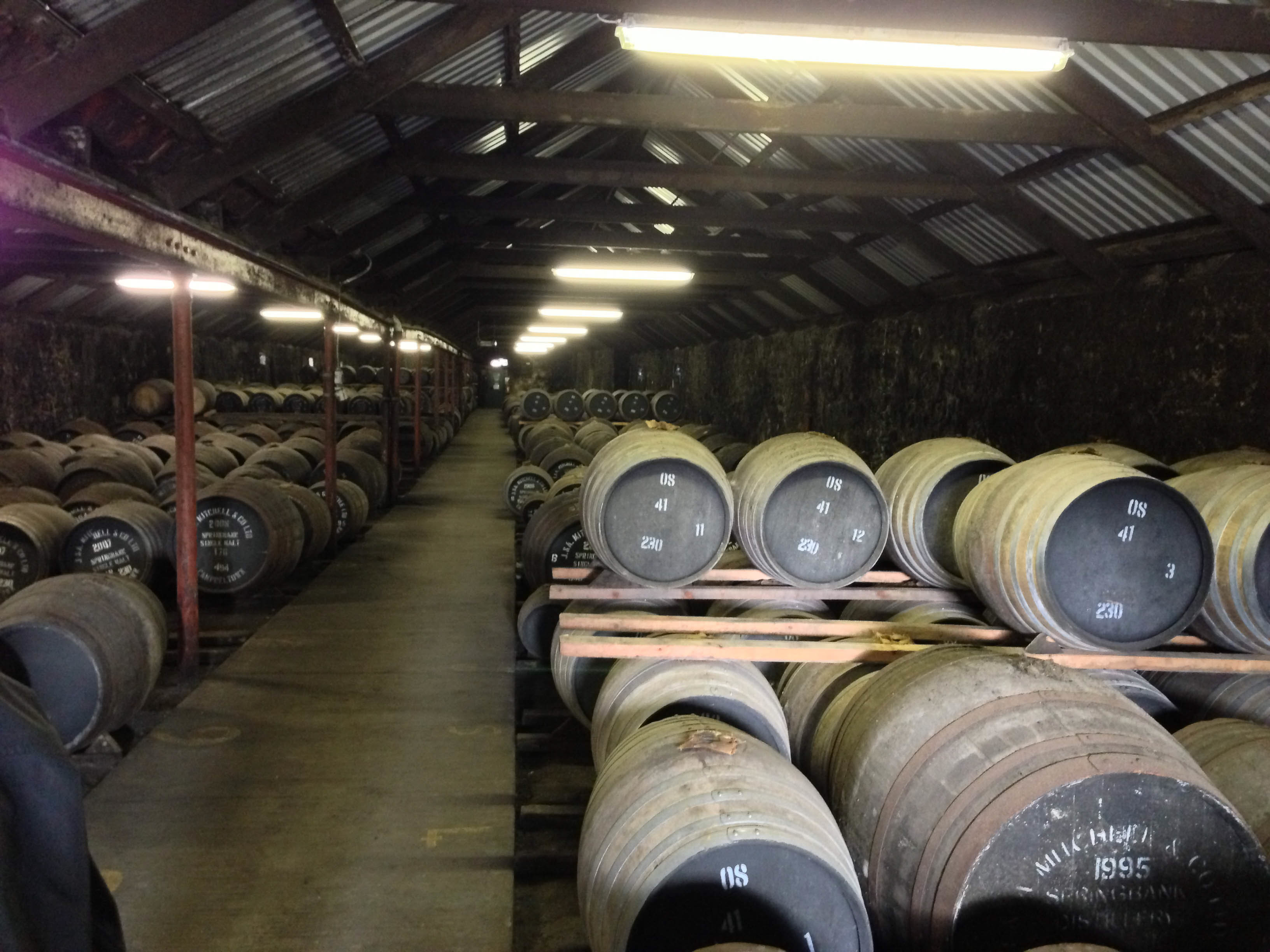 Warehouse